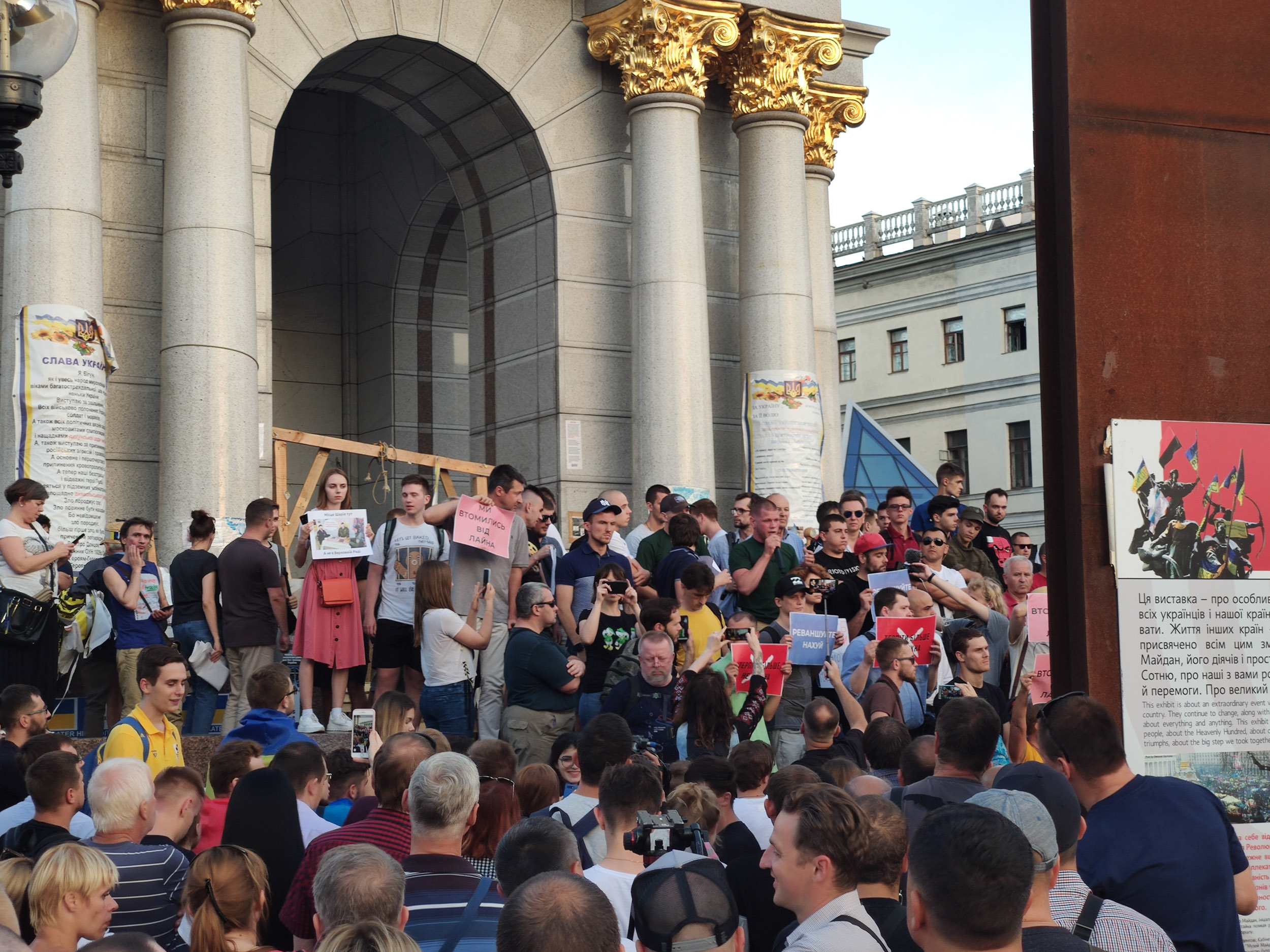 Rally against decisions of Central election commission and Supreme court that violate Ukrainian law. Kyiv, Maidan Nezalezhnosti